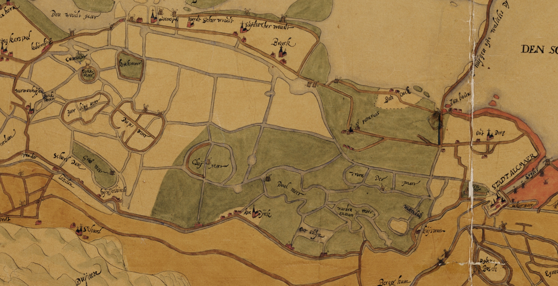 Detail-kaart van kaart van een groot deel van Noordholland boven het IJ met aanwijzing van de contributie die men schuldig is in de omslag van de Uitwaterende Sluizen]. Actum in den jare ons Heren 1603 ende was onderteyckent Gerrit Dirksz. Langedijck...gecopieert in Mey 1607 bij mij Floris Jacobsz. gesworen landmeter. Een gedeelte van de oorspronkelijke kaart is in 1990 teruggevonden aan de achterzijde van een pastelportret. Zie cat.nr. Orgineel van de copie van Floris Jacobsz. bevindt zich in het ARA, Hingman 2513. A(492.62)015